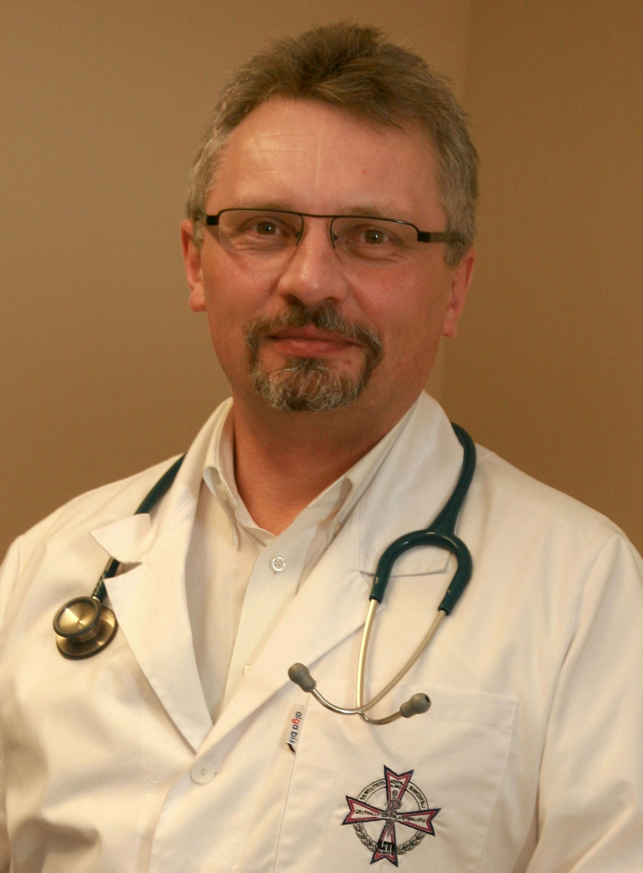 Photo of Jacek Rysz